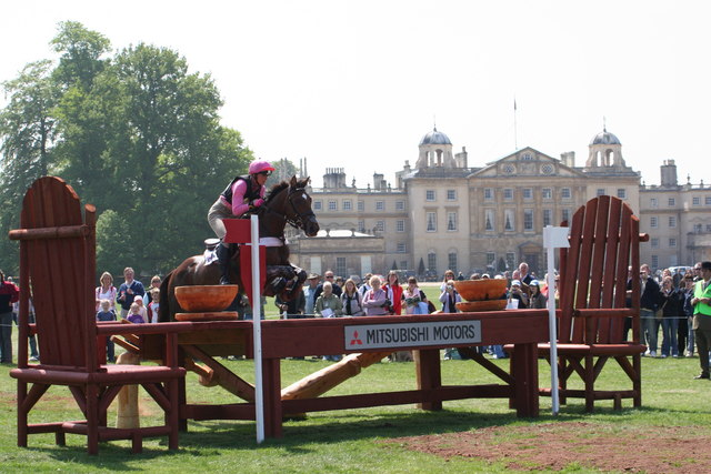 Badminton Horse Trials 2007 Lucinda Fredericks, the eventual winner taking the jump in front of Badminton House.